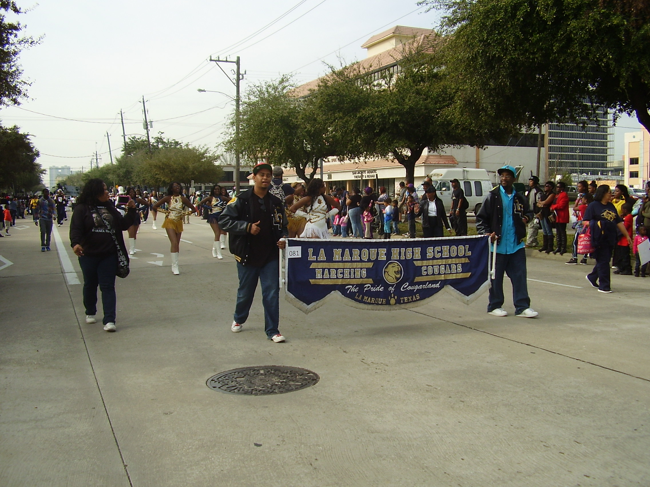 La Marque High School band, 2013 MLK day parade, Midtown Houston